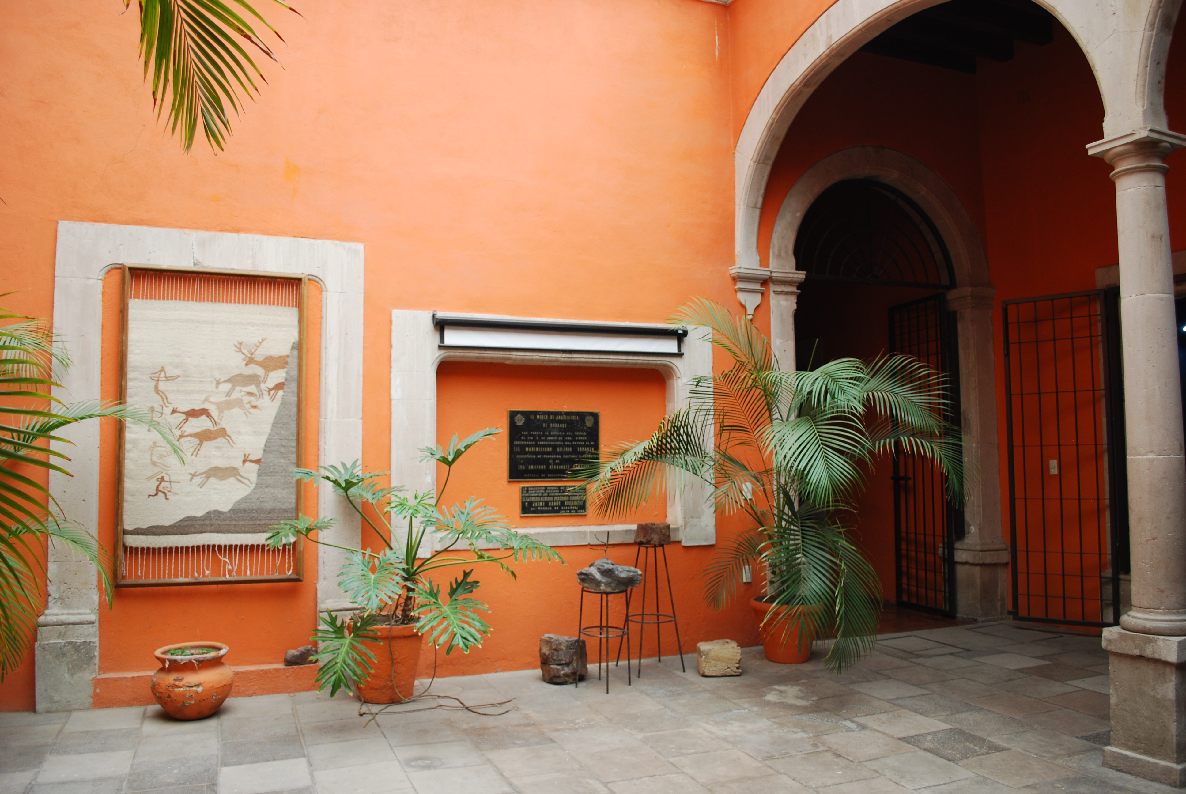 Interior courtyard of the Museo de Arqueología de Durango Ganot-Peschard in Victoria de Durango, Mexico